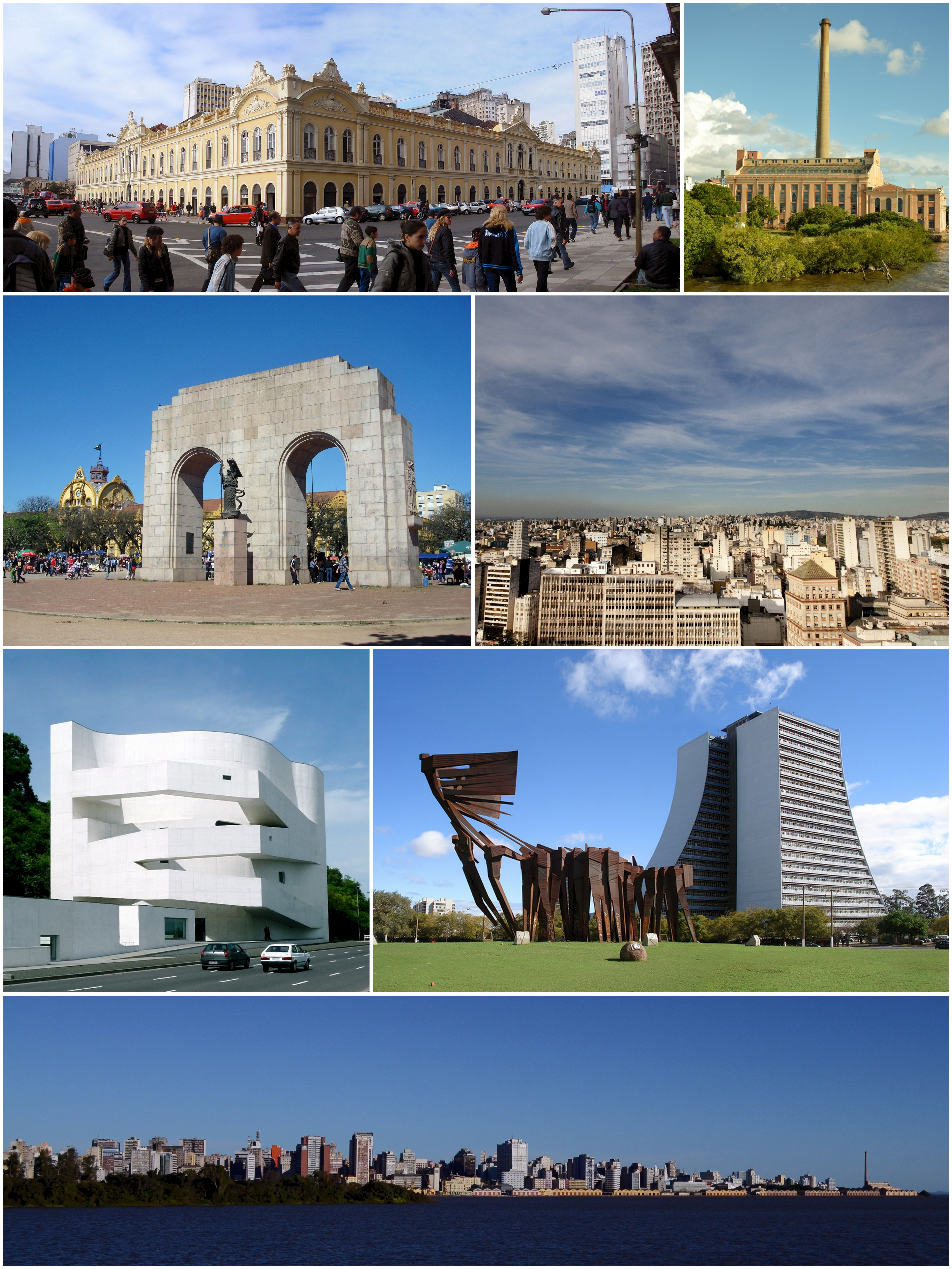 Images of Porto Alegre, Rio Grande do Sul, Brazil.